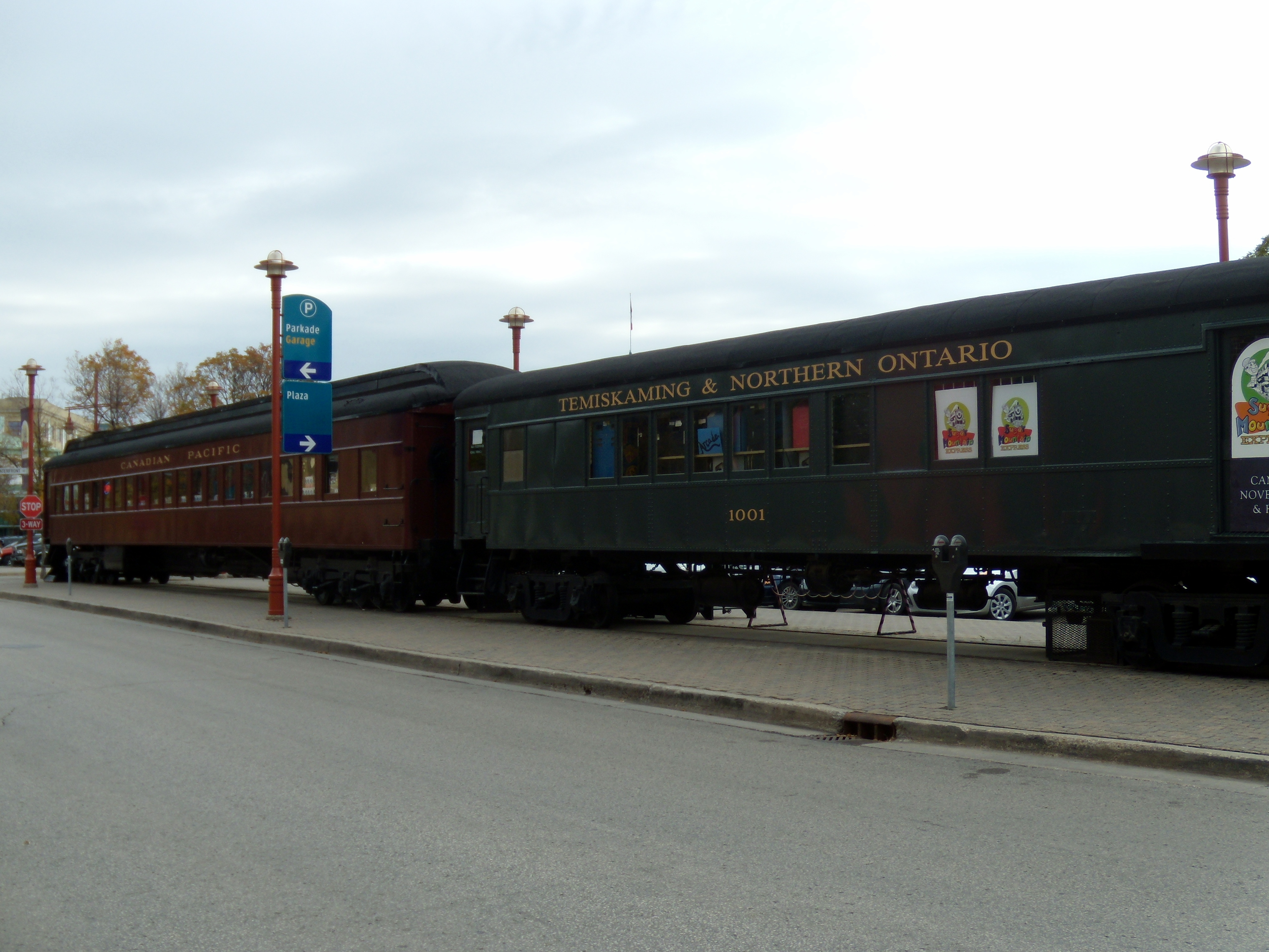 Rail Cars at The Forks in Winnipeg Manitoba